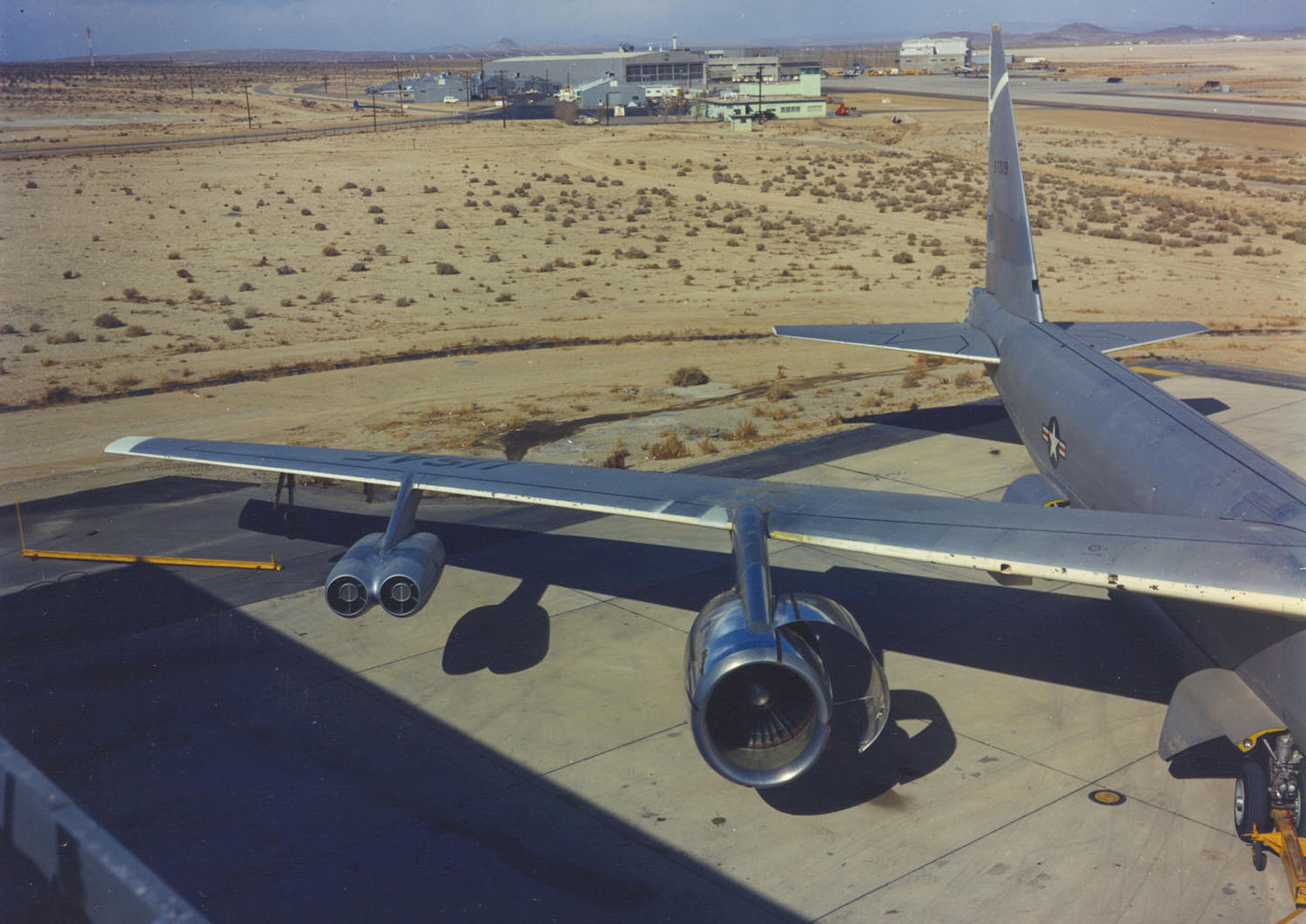 Trial fit of TF-39 turbofan on B-52E, closeup view